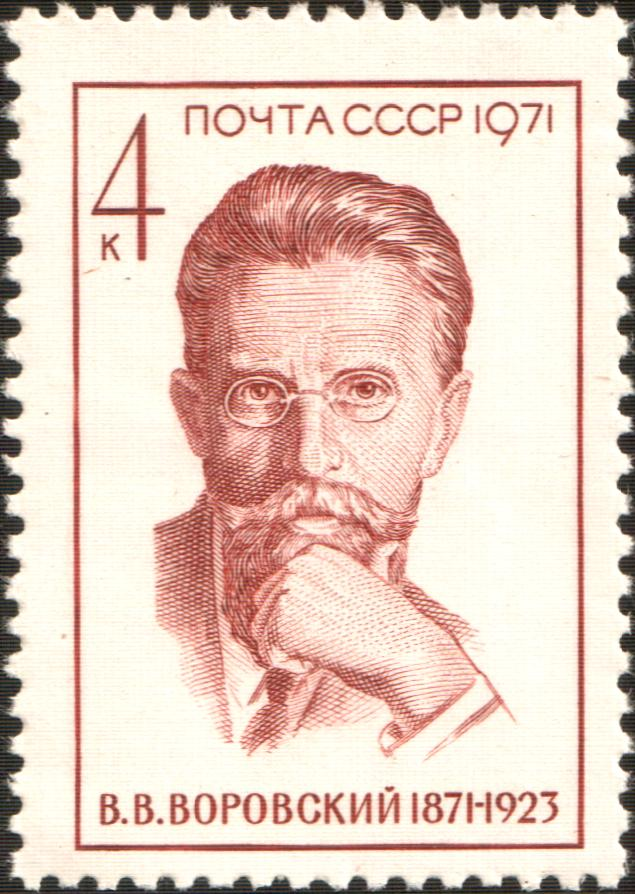 USSR stamp: Vatslav Vorovsky (1871-1923), Diplomat (Birth Centenary). Series: Outstanding Workers of the Communist Party of the Soviet Union and for the State. Birth Anniversaries